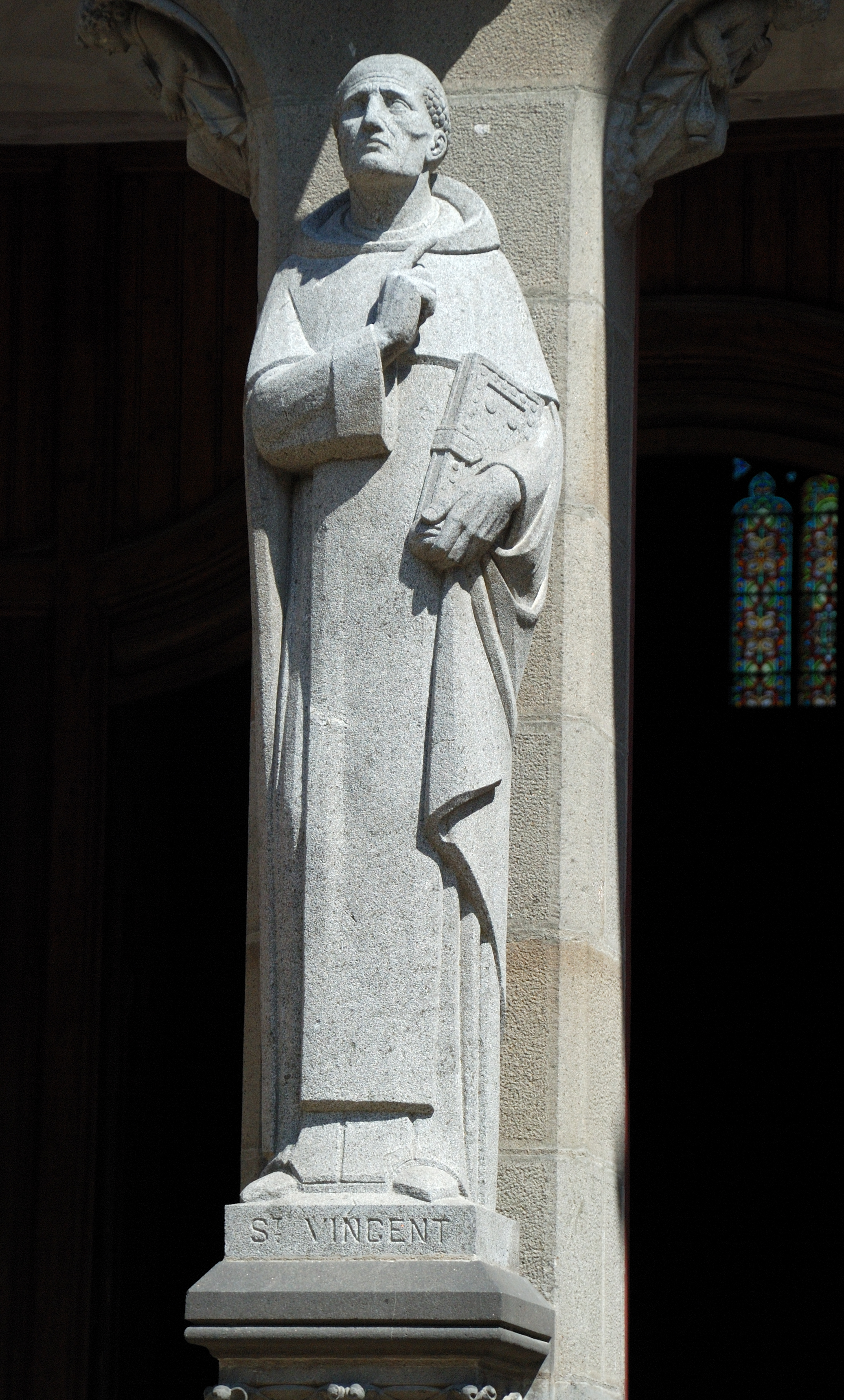 Vannes: statue of Saint Vincent Ferrer (Morbihan, France)